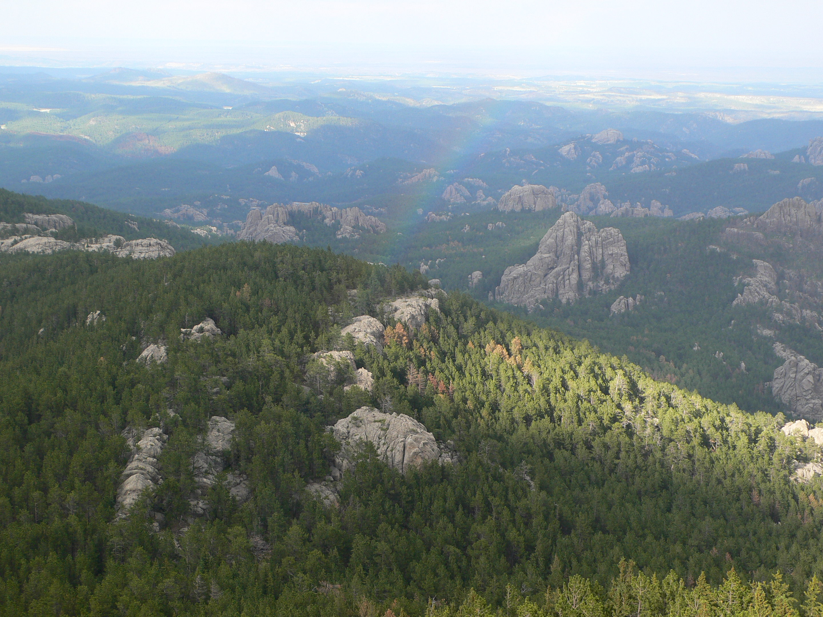 View from Harney Peak, South Dakota. Photograph taken by Trevor Harmon in July 2006 from the top of the Harney Peak fire lookout tower. If you look carefully, you can see a rainbow. --Vocaro 23:27, 17 July 2006 (UTC)